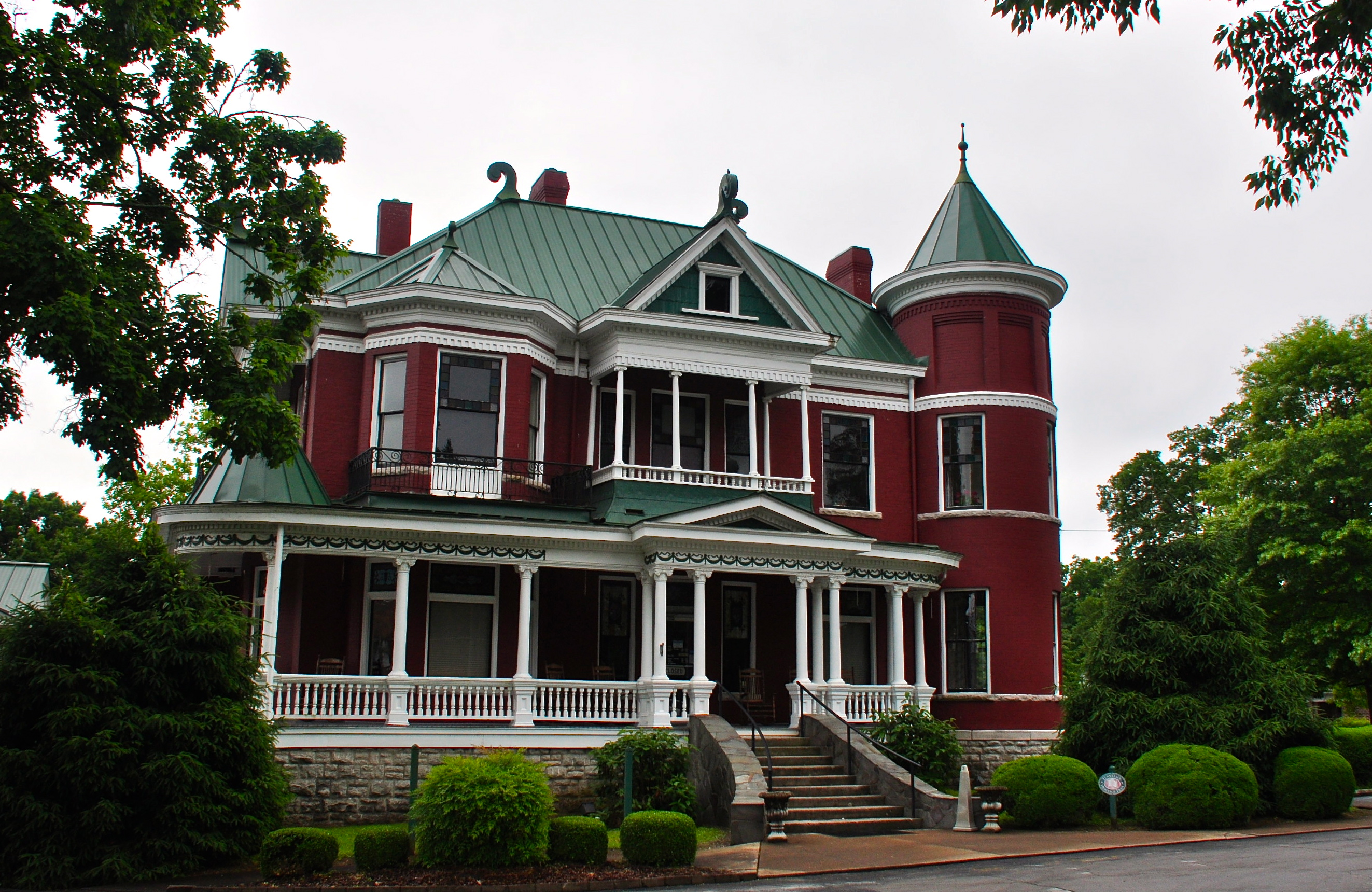 Located at Pulaski, Giles County, Tennessee. NRHP #7900243, listed 6 December 1979.